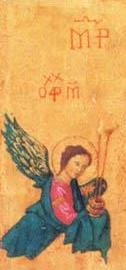 Archangel Michael, detail from Our Lady of Perpetual Help, Byzantine icon said to be 13th or 14th century